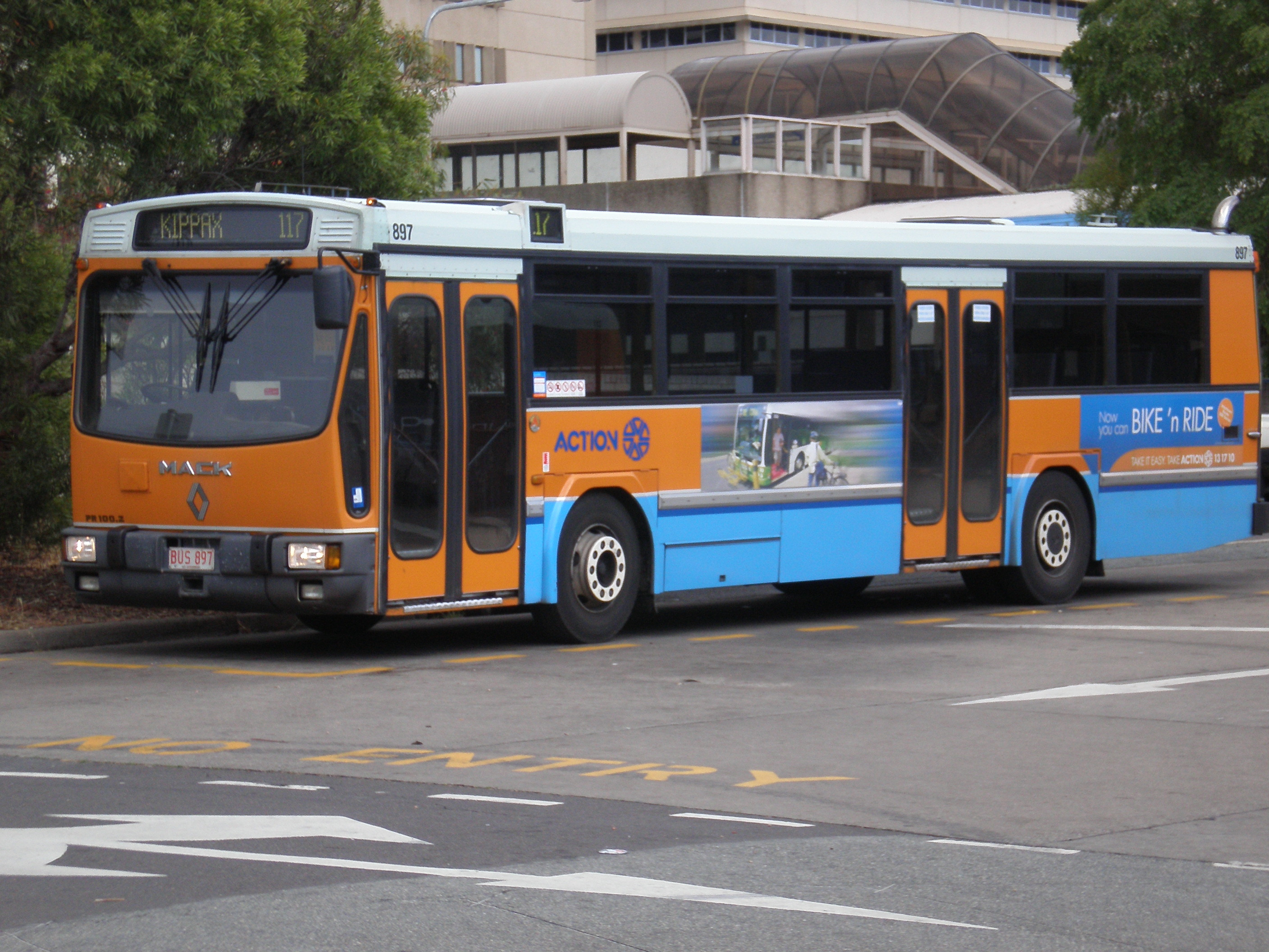 ACTION BUS 897 at the Woden Interchange layover bay. The bus is a Renault PR100.2 with Ansair bodywork.